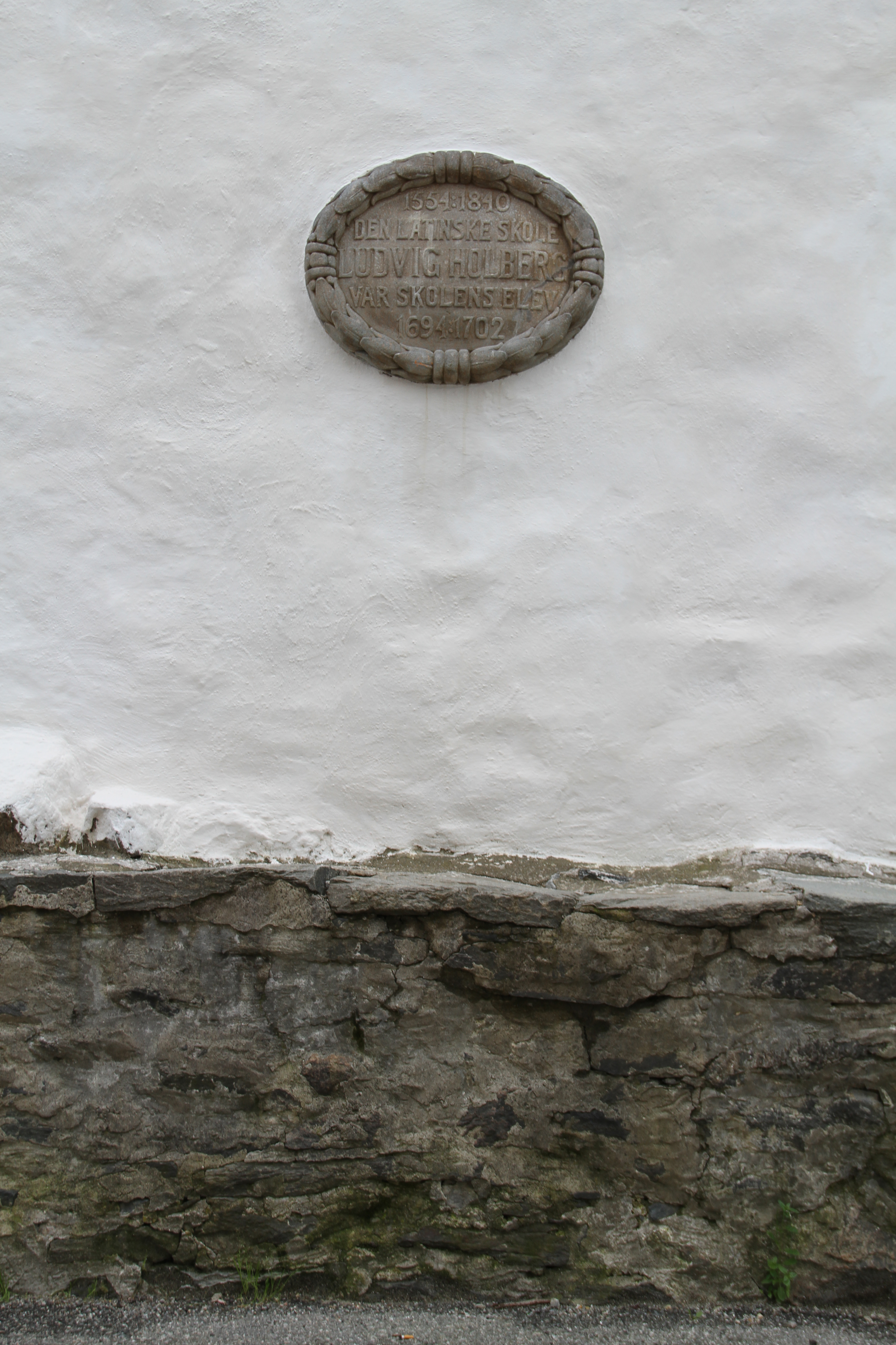 "Den gamle latinskolen" (The Old Latin School) from the 17th century, in Bergen - Norway.